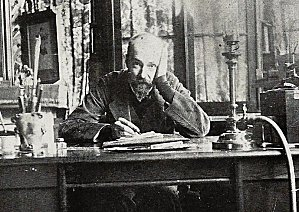 Max Elskamp (1862-1931) - Belgian poet, symbolists; writing in French language.